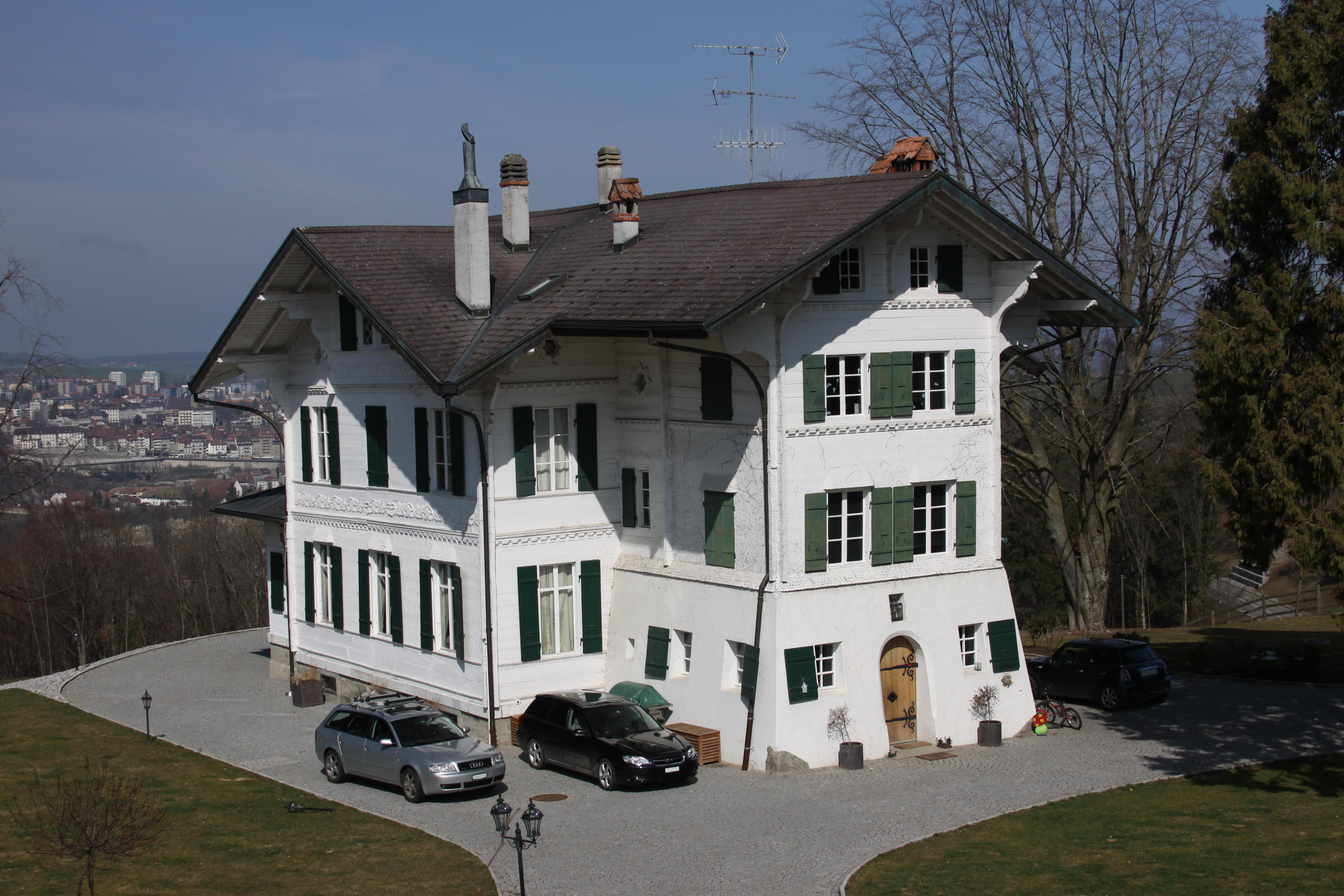 Chalet Diesbach, Route de la Schürra 15, Pierrafortscha